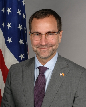 Official photo of US Ambassador to Spain James Costos